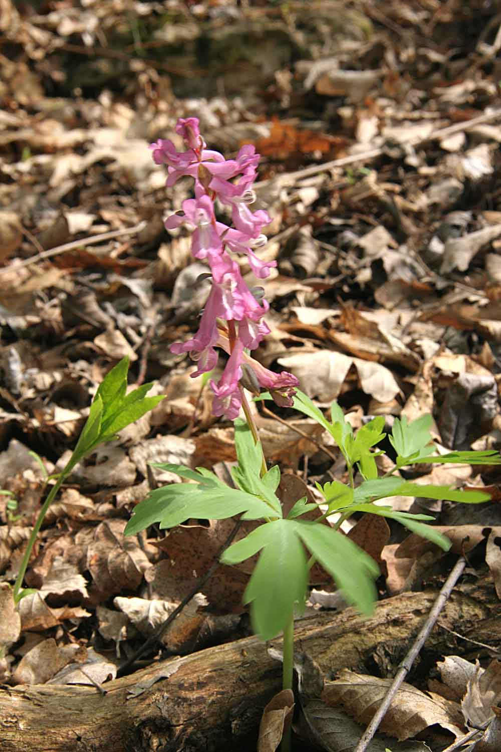 Corydalis cava in Czech Republic near Beroun autor Prazak